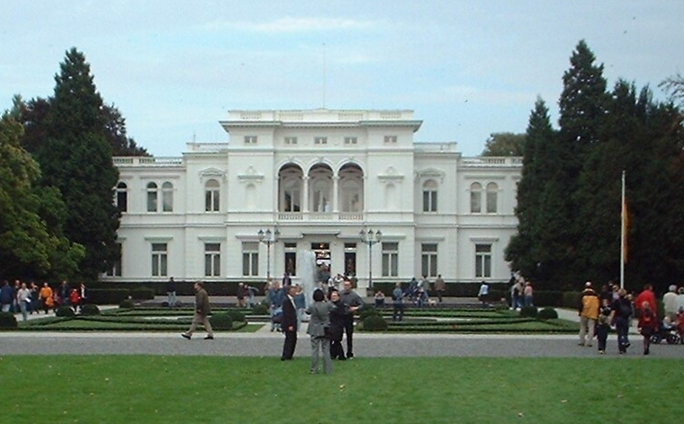 Villa Hammerschmidt in Bonn, "seccond" residence of the German federal president